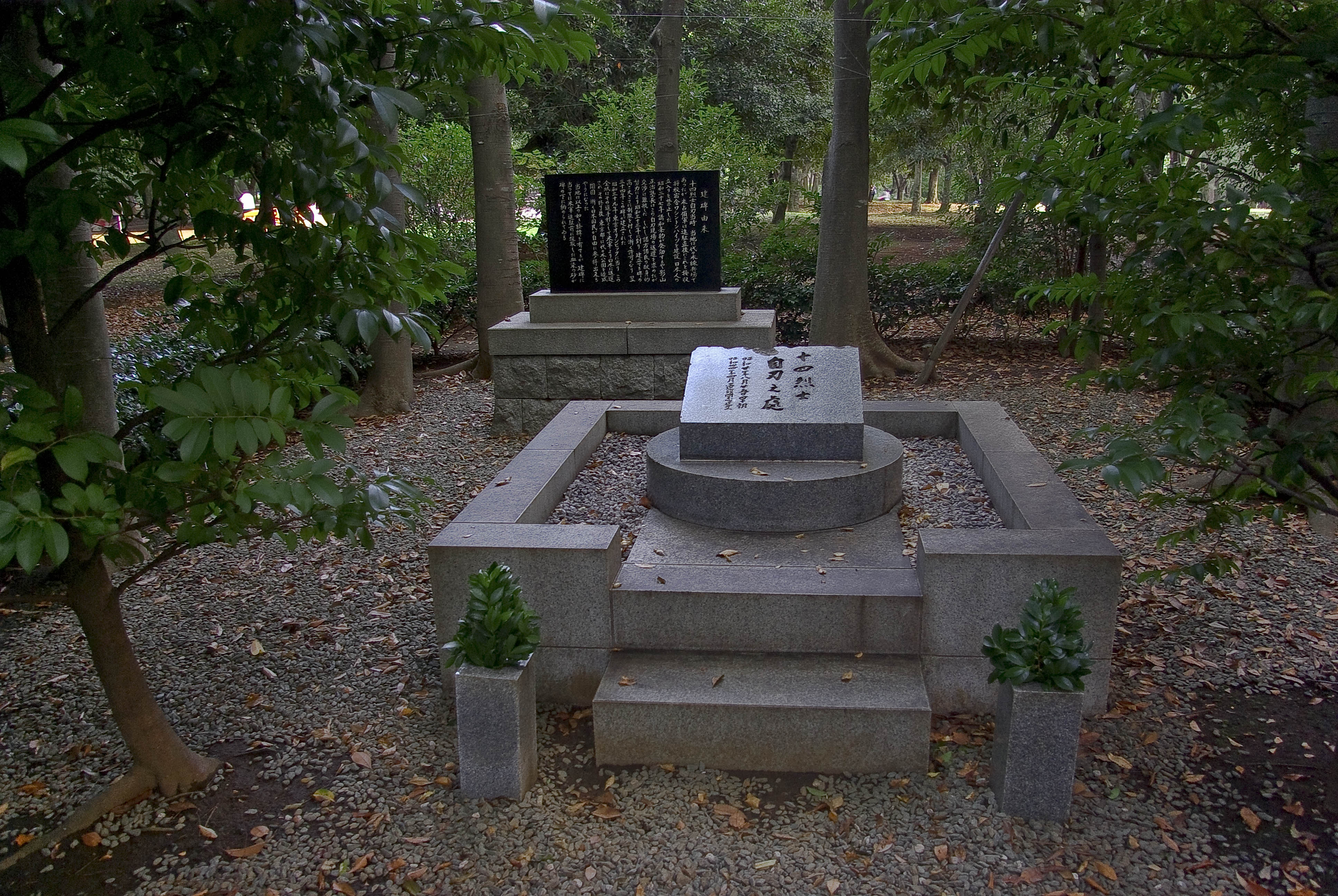 The monument for 14 patriotｓ committed suicide who belong to Daitojuku (extreme right-wing group), Yoyogi Park, Tokyo, Japan